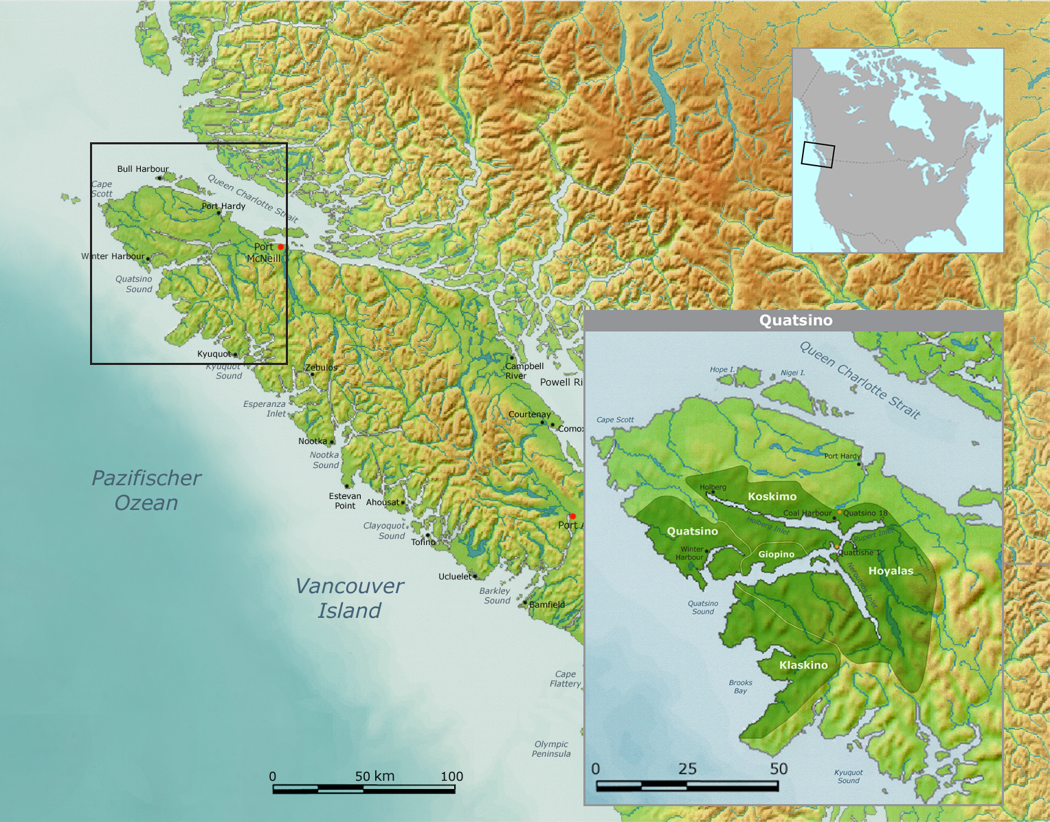 Map of traditional Quatsino tribal territory.